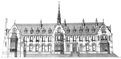 Augustus Pugin's gothic replacement for Garendon Hall which was never undertaken.